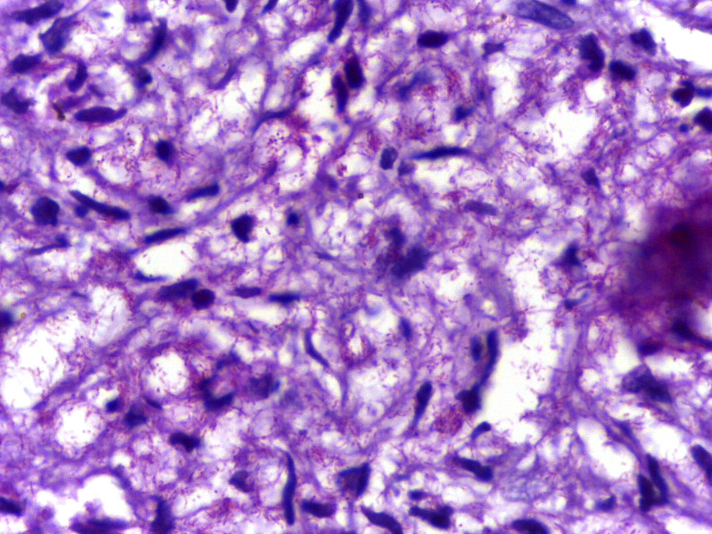 Modified AFB staining in a case of lepromatous leprosy showing numerous rod shaped acid fast bacilli. H&E stain.